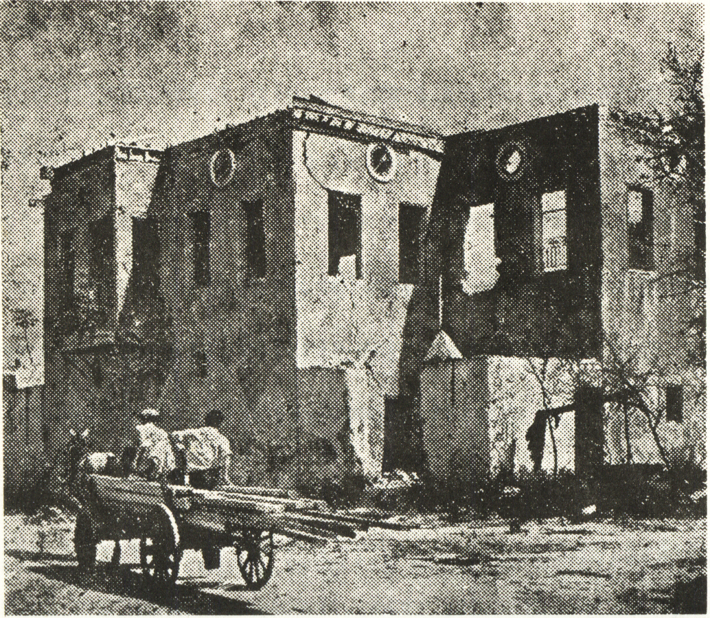 בית משפחת יצקר כפי שנמצא נטוש ב1949